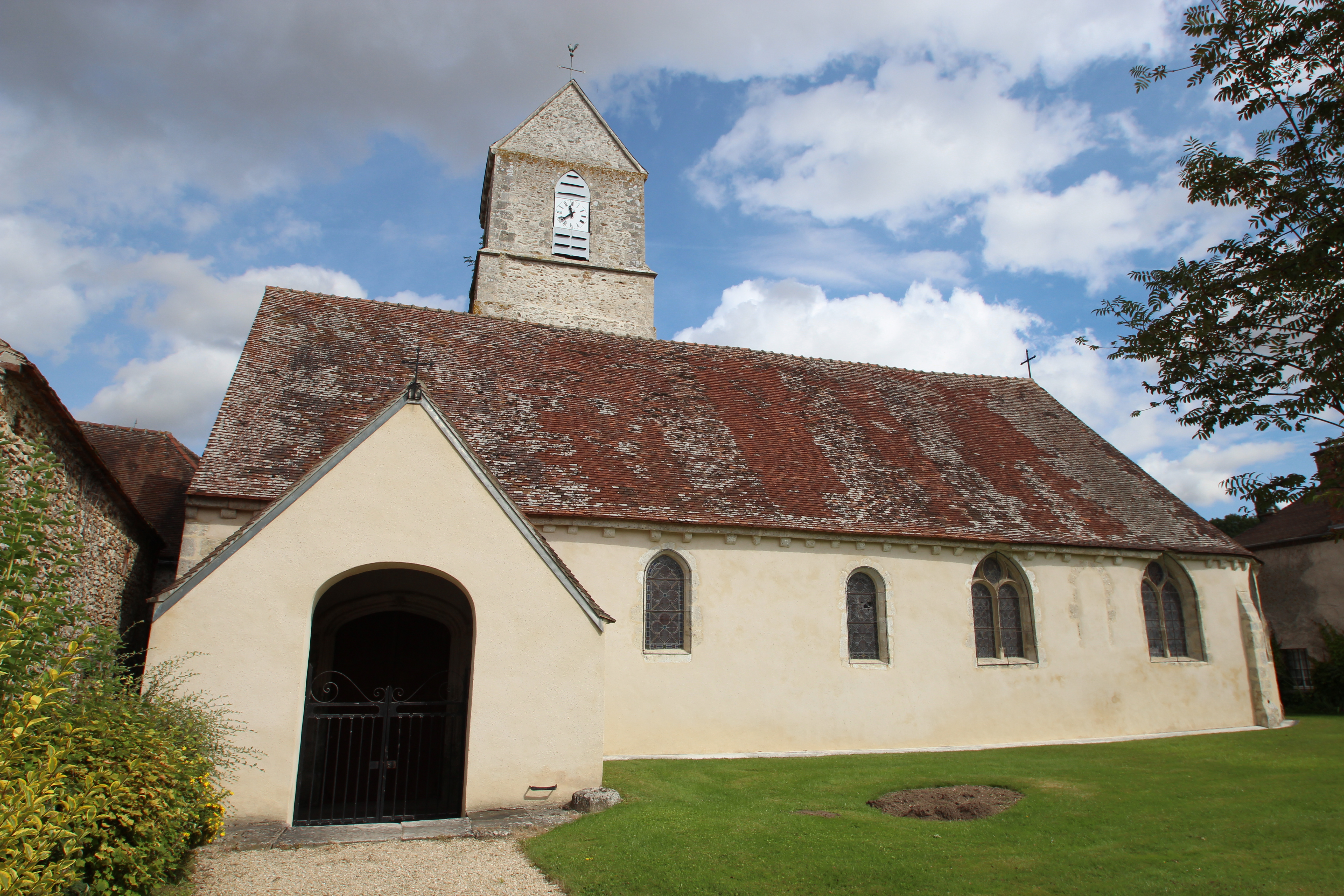 Saint-Martin church in Bleury-Saint-Symphorien, France. . Object location48° 31′ 13.95″ N, 1° 44′ 51.27″ E